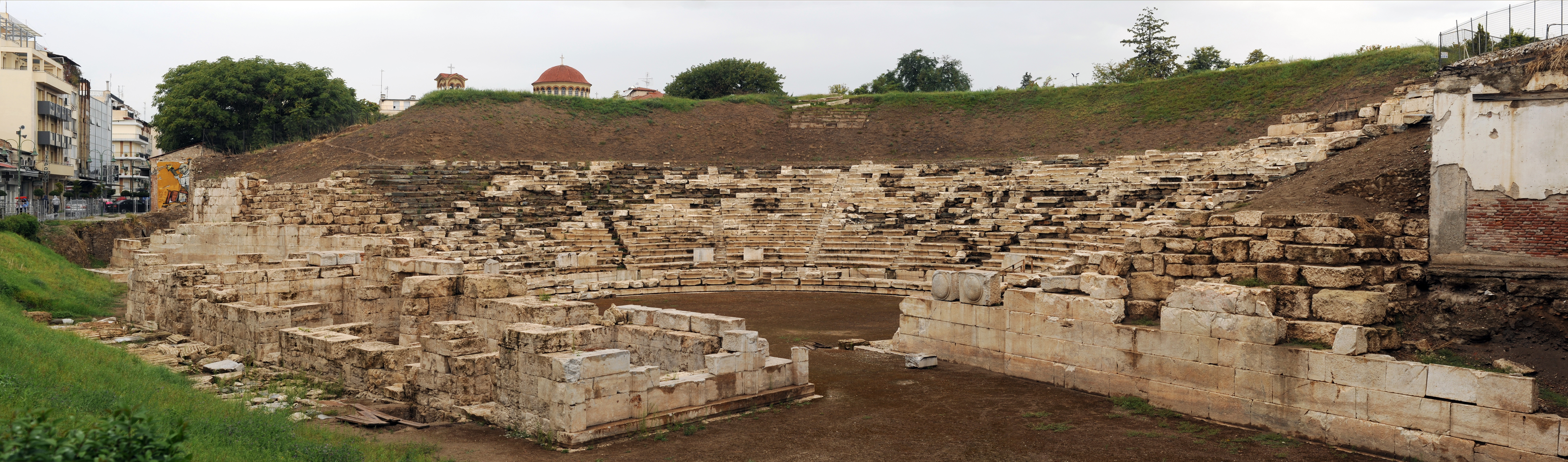 Ancient theater of Larissa, Thessaly, Greece.